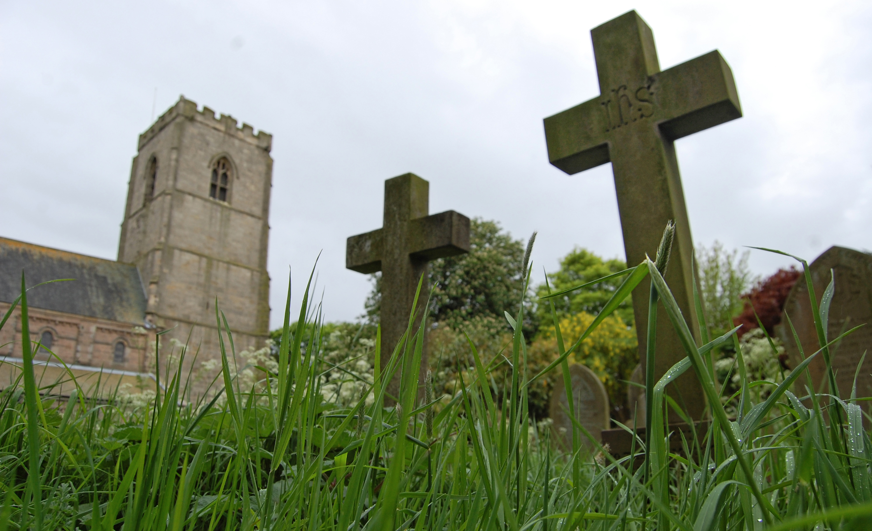 The Church of All Saints in Spofforth is the burial ground for John Metcalf (also known as 'Blind Jack of Knaresborough'), a renowned local figure who died in 1810. He was a road surveyor who worked extensively throughout Yorkshire between 1745 and 1792 despite being completely blind due to contracting smallpox at the age of six.